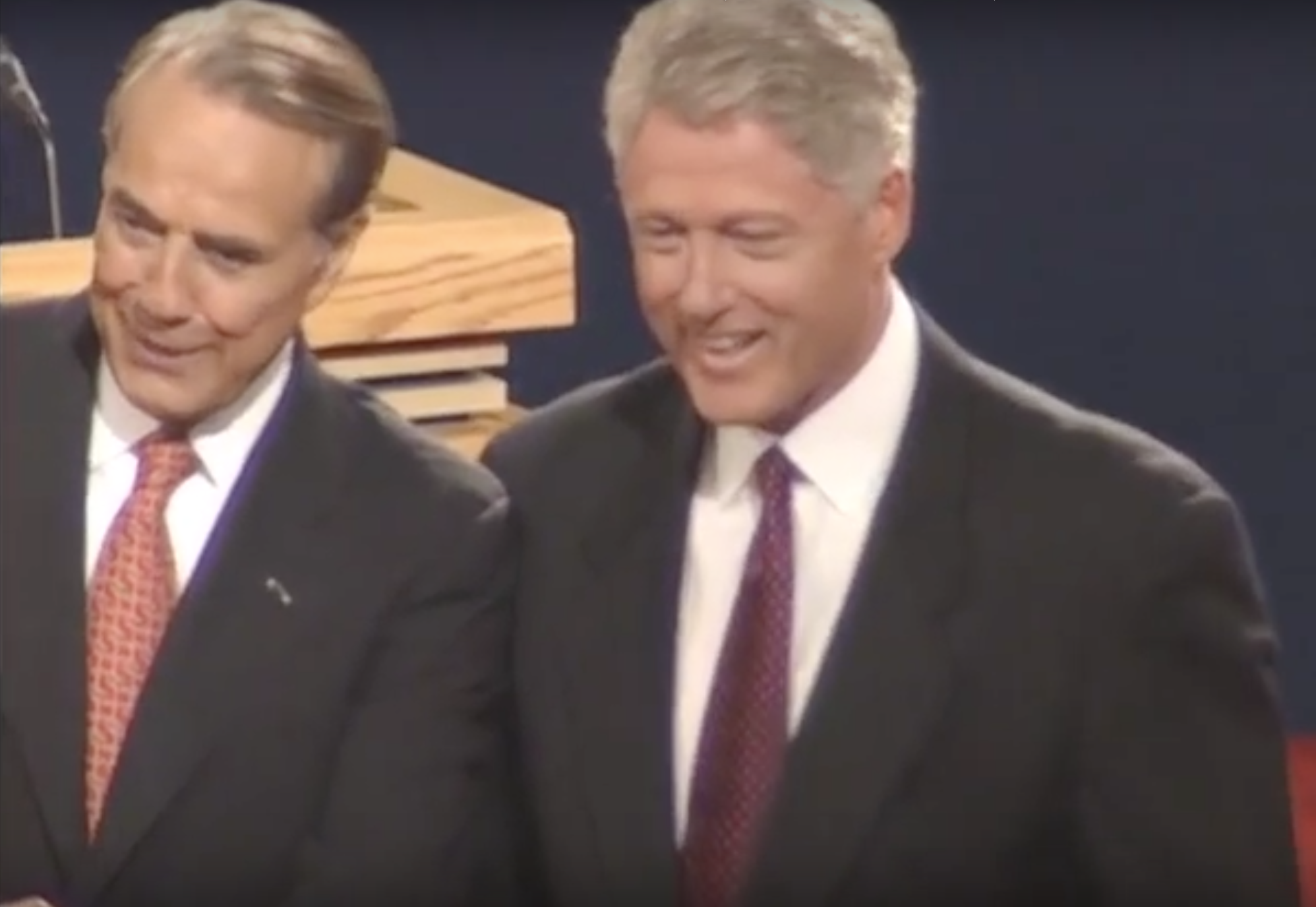 Bob Dole and Bill Clinton at the end of the first presidential debate of the 1996 election, held in Hartford, Connecticut.